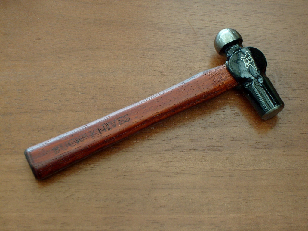 Neat little hammer from Buck.